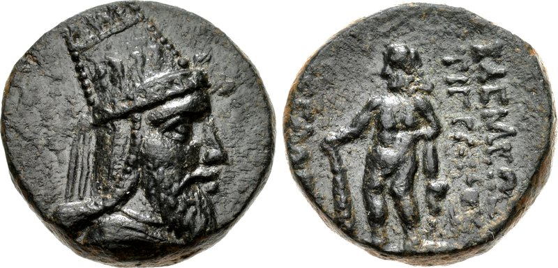 Coin of Tigranes IV of Armenia, Artaxata mint.